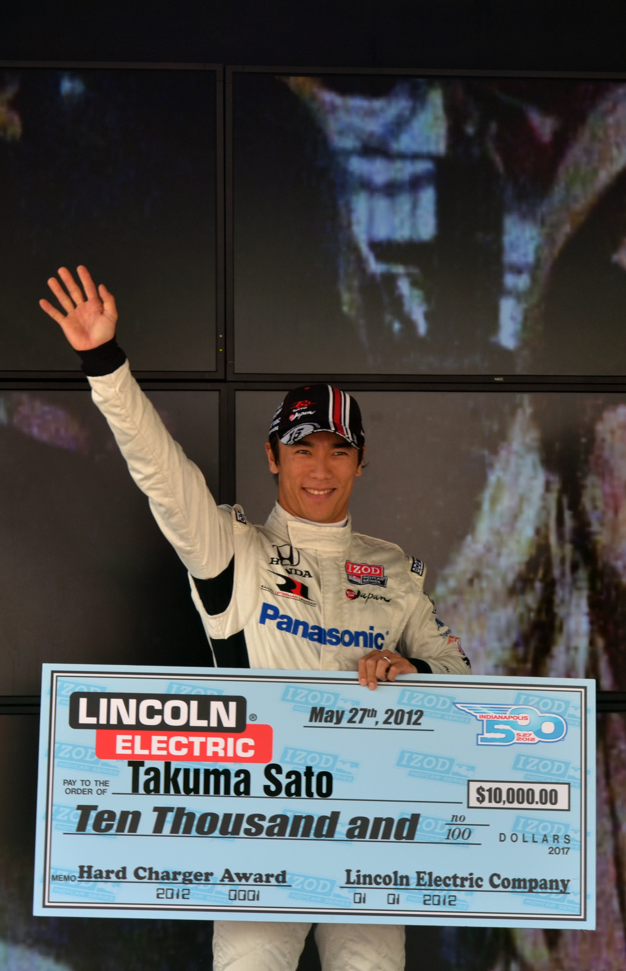 IndyCar racer Takuma Sato picks up the Lincoln Electric Hard Charger award for making up the most places to take the lead during green flag conditions during the 2012 Indianapolis 500.